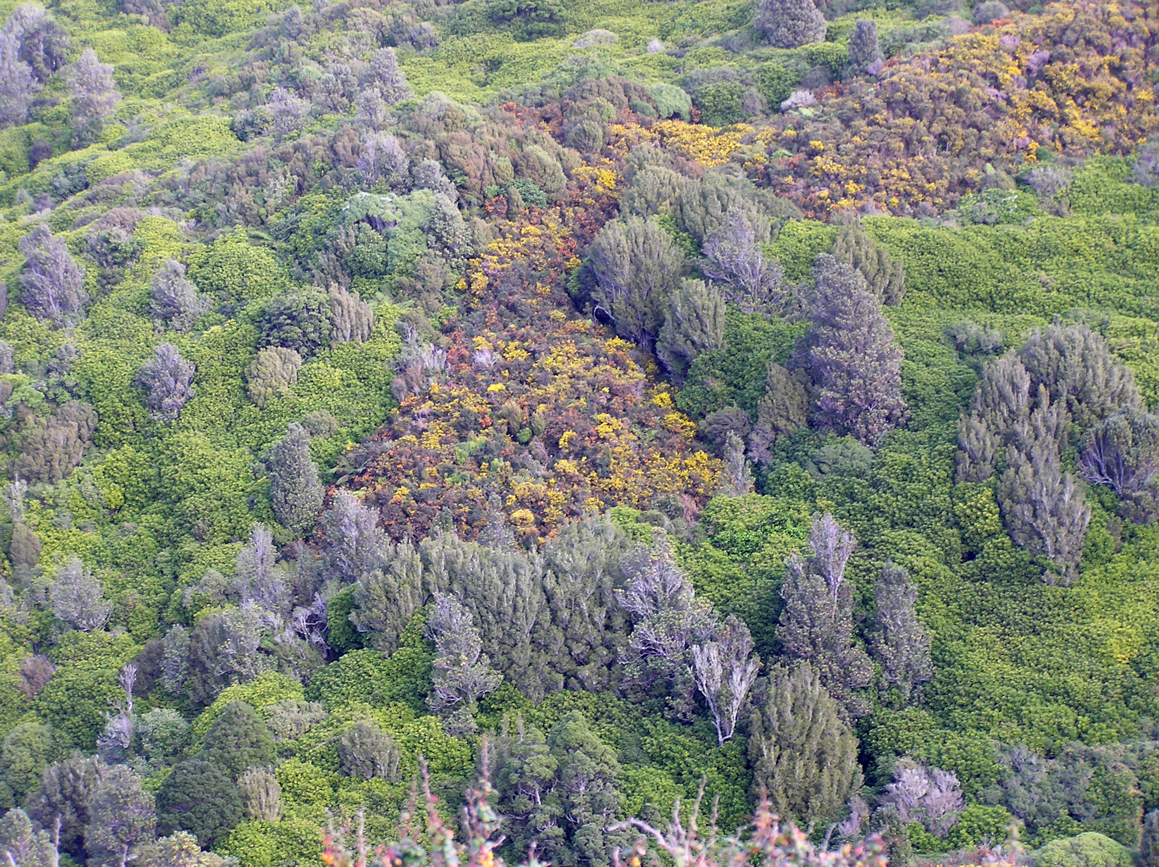 Gorse (yellow), Darwin's Barberry (orange) and other plants colonising area of native forest after fire. Above Wilton, Wellington, New Zealand.